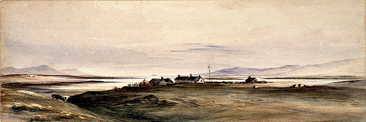 An image of Port Louis in 1834. Painted by Conrad Martens whilst aboard HMS Beagle